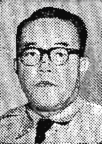 Kentarō Uemura, first Chief of Staff of the Japan Air-Self-Defense Force (JASDF).